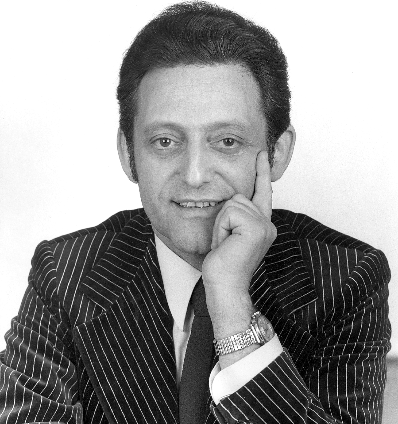 The German radio and television host, producer and entertainer Hans Rosenthal (born 2 April 1925 in Berlin, † February 10, 1987 ibid) autograph card design.